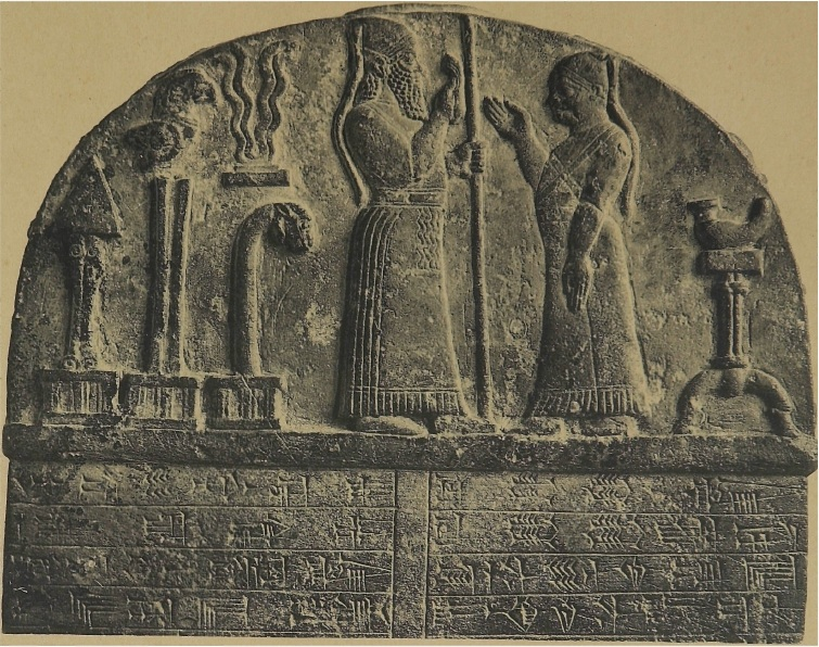 Kudurru of the 2nd year of the reign of Marduk-zākir-šumi I recording a religious bequest to the Eanna temple in Uruk